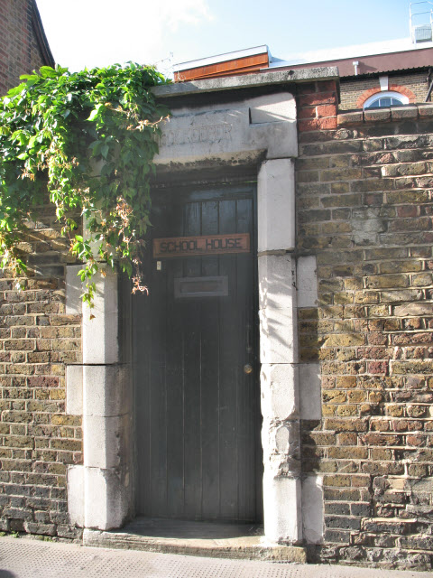 The Schoolmaster's House This door in the wall in Copperfield Street is labelled "schoolhouse" and the lintel is inscribed "schoolkeeper". The building behind the wall, formerly the Orange Street School (being the original name of this street), is now the Jerwood Space arts centre.